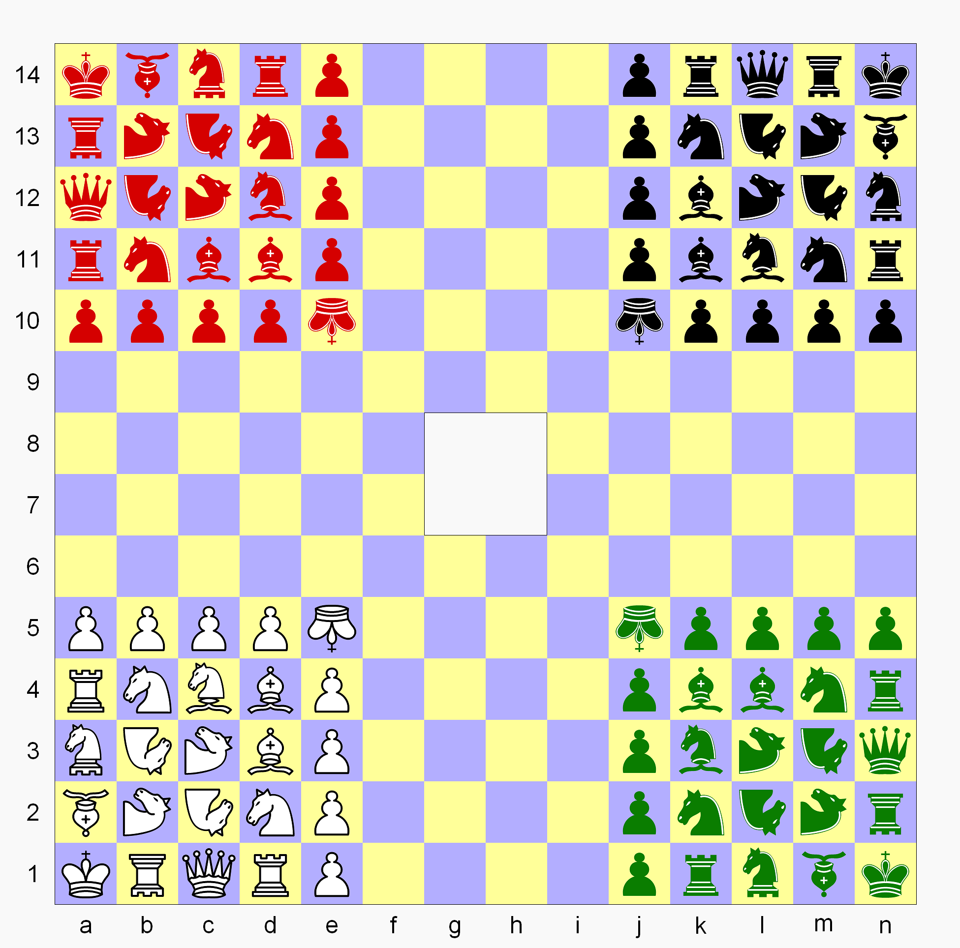 Using the great chess icons fashioned by David Benbennick (User:Dbenbenn). I synthesized the chancellor and archbishop from the existing icons. All done in MS PAINT.